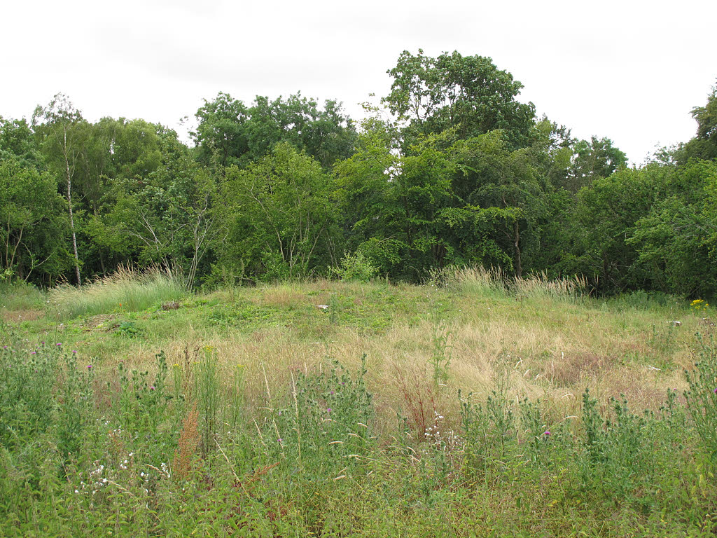 Tumulus within the southern part of Fargo Plantation. Uploader's note: Apparently the barrow known as Amesbury 54 viewed from the north.